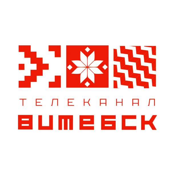 tv logo